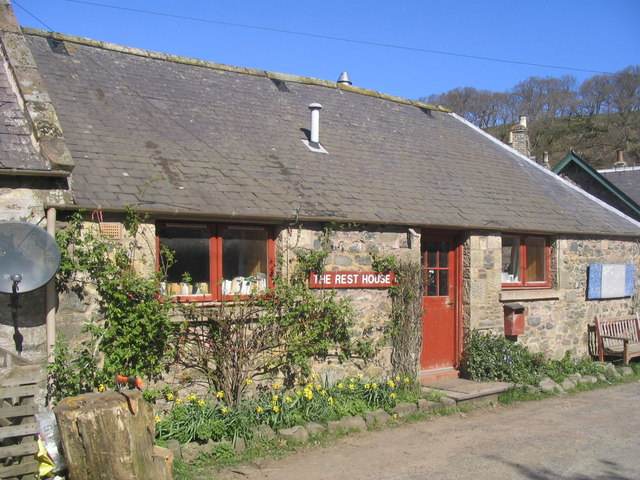 The Rest House, Abbey St Bathans For the weary traveller on the Southern Upland Way.